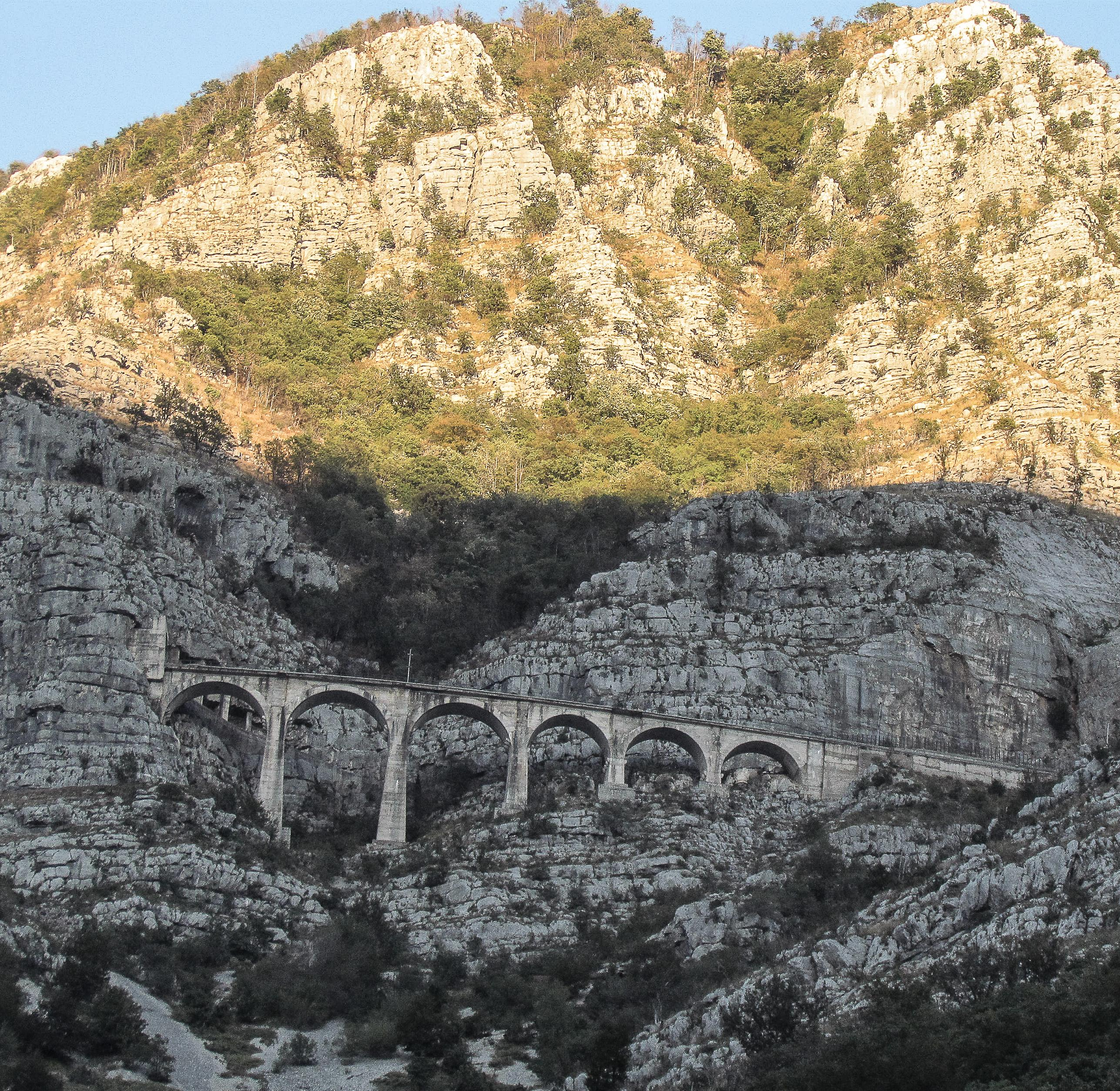 Schwierigste Hangtrasse der Belgrad-Bar Bahn bei Lutovo im Sjeverica-Tal dem linksseitigen Tal der Moraca